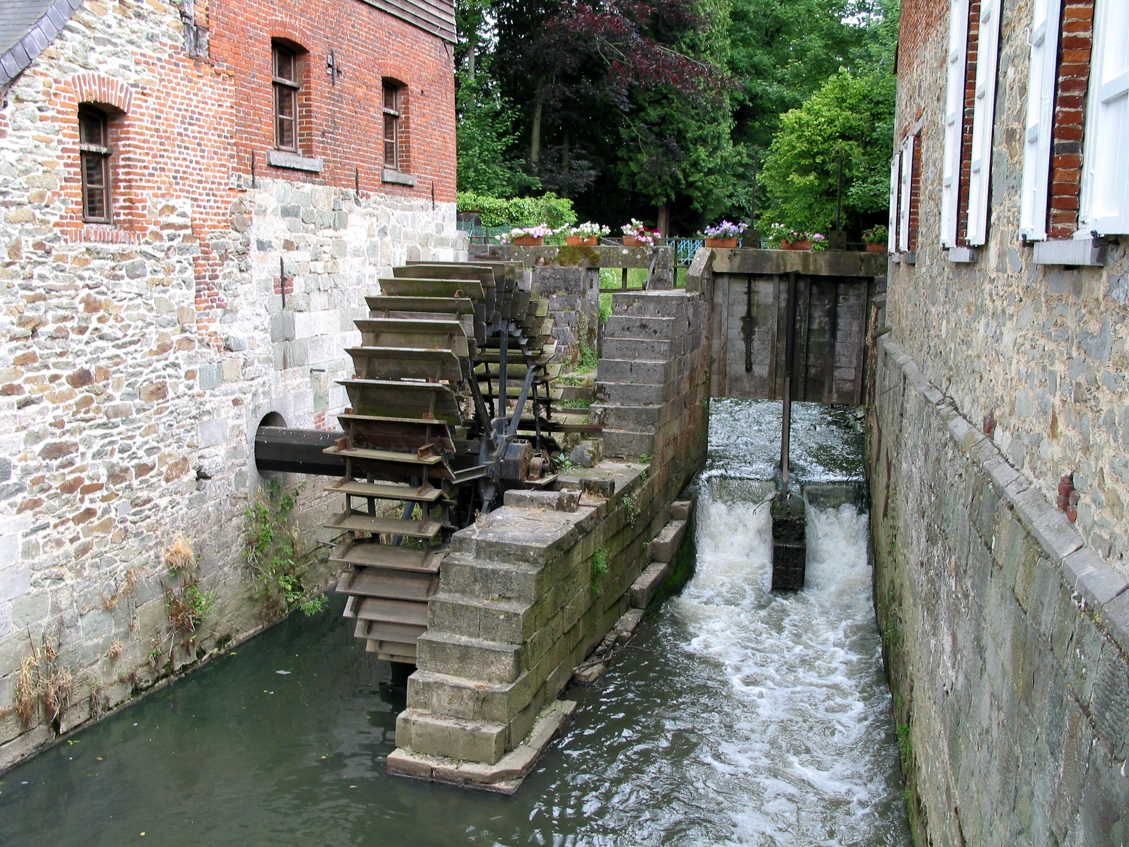 Braine-le-Château (Belgium), the old community watermill on the Hain river.